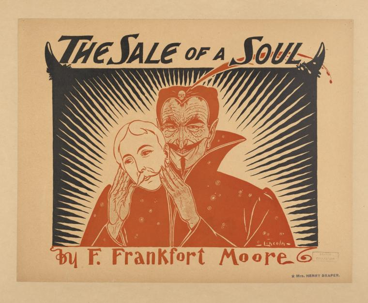 Promotional poster for The Sale of a Soul, a novel by Frank Frankfort Moore